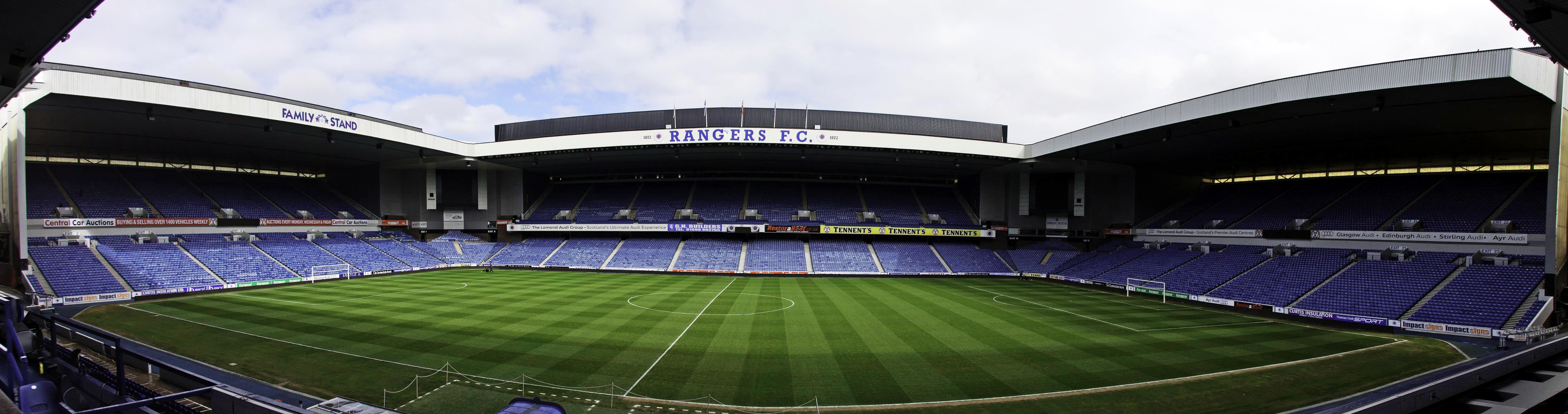 Panorama picture of the Copland, Broomloan and Govan stands at Ibrox Stadium. Taken from the Bill Struth Main Stand. Taken April 12th 2012